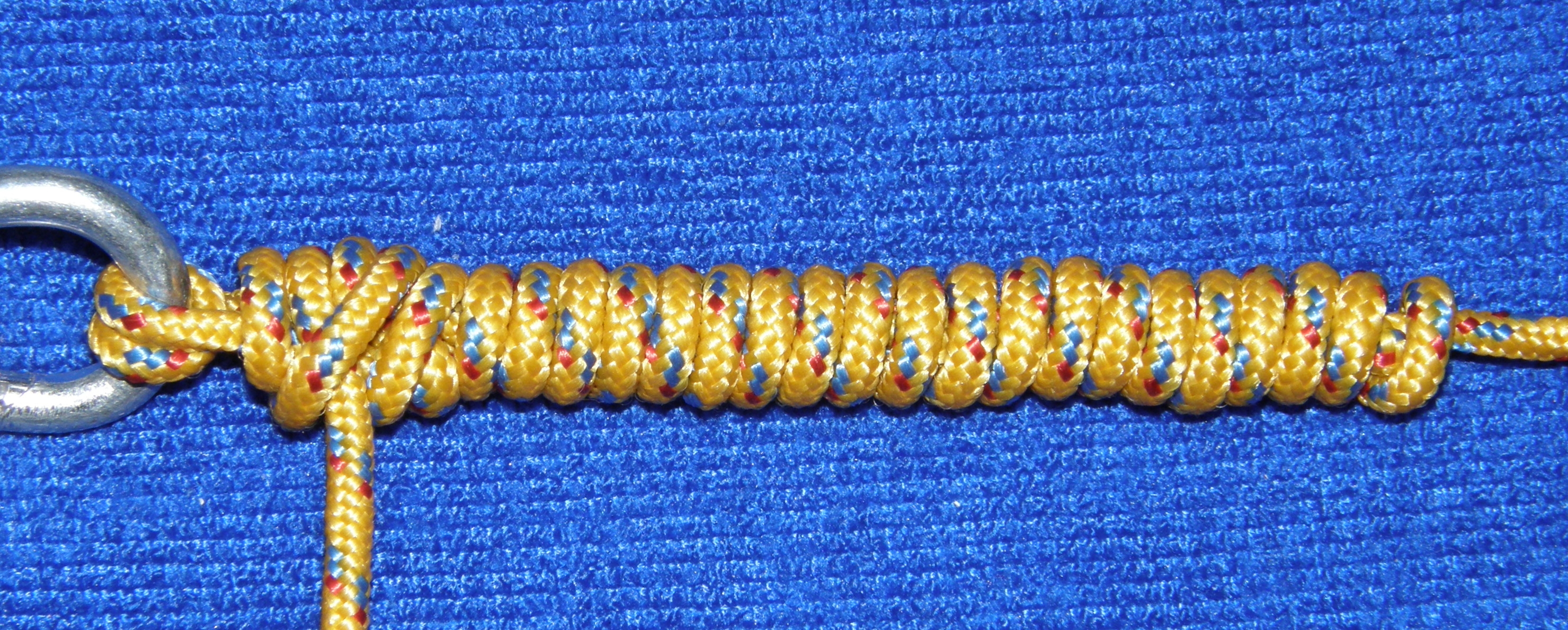 Bimini-Twist-Knot finish